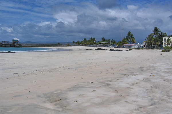 Photo of Puerto Villamil Isabela Galapagos